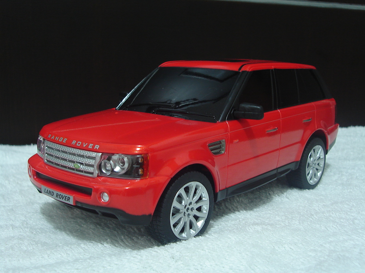 Rastar 1:24 Range Rover Sport